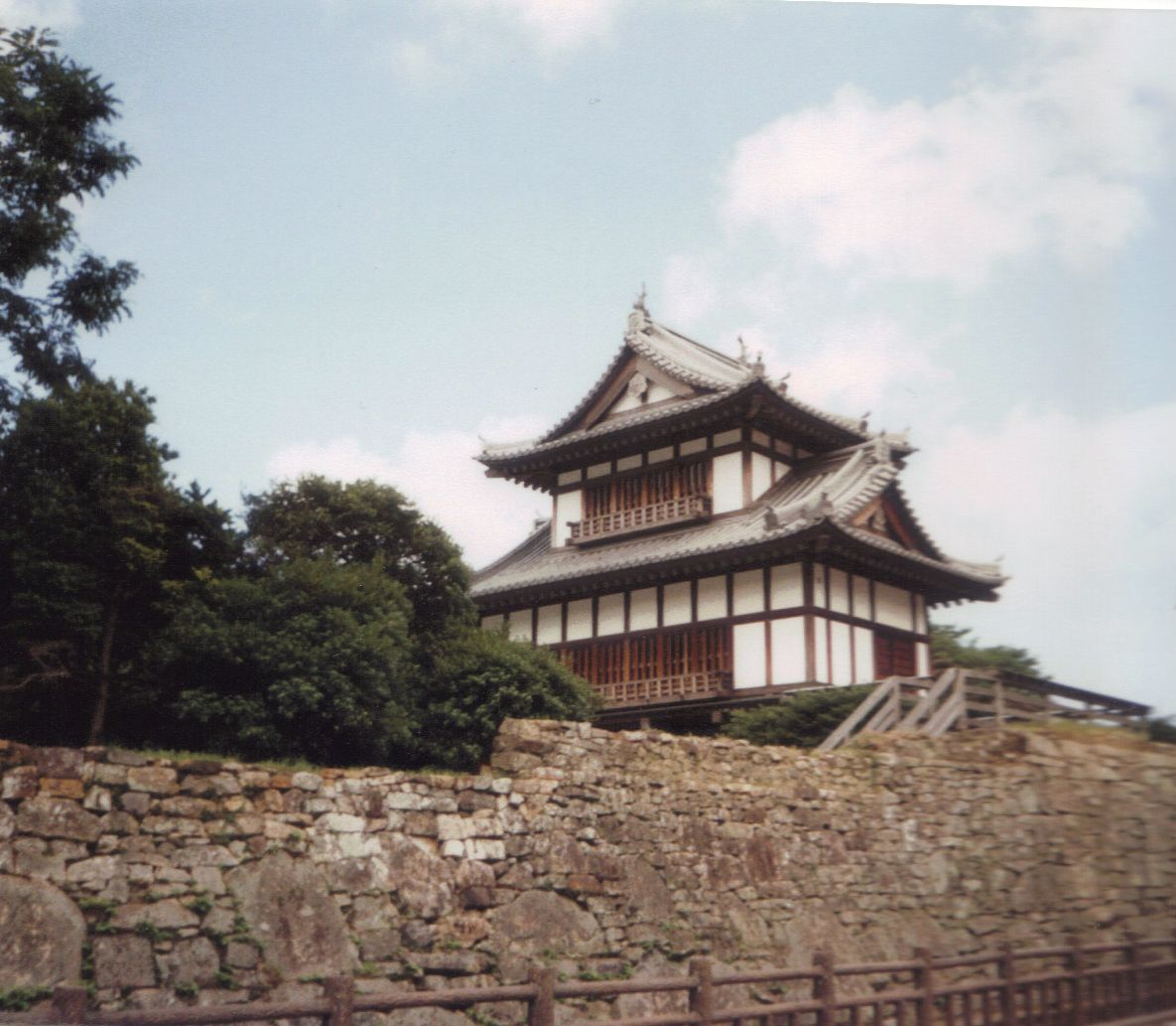 Kane Ishi Jo Castle, Izuhara, Tsushima Island, Nagasaki Ken, Japan